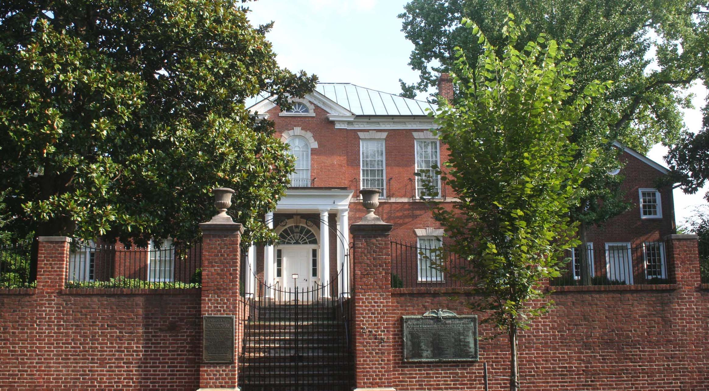 Dumbarton House, a Registered Historic Place in Washington, D.C. It is currently owned by the National Society of The Colonial Dames of America, who use it as a museum.Dumbarton House